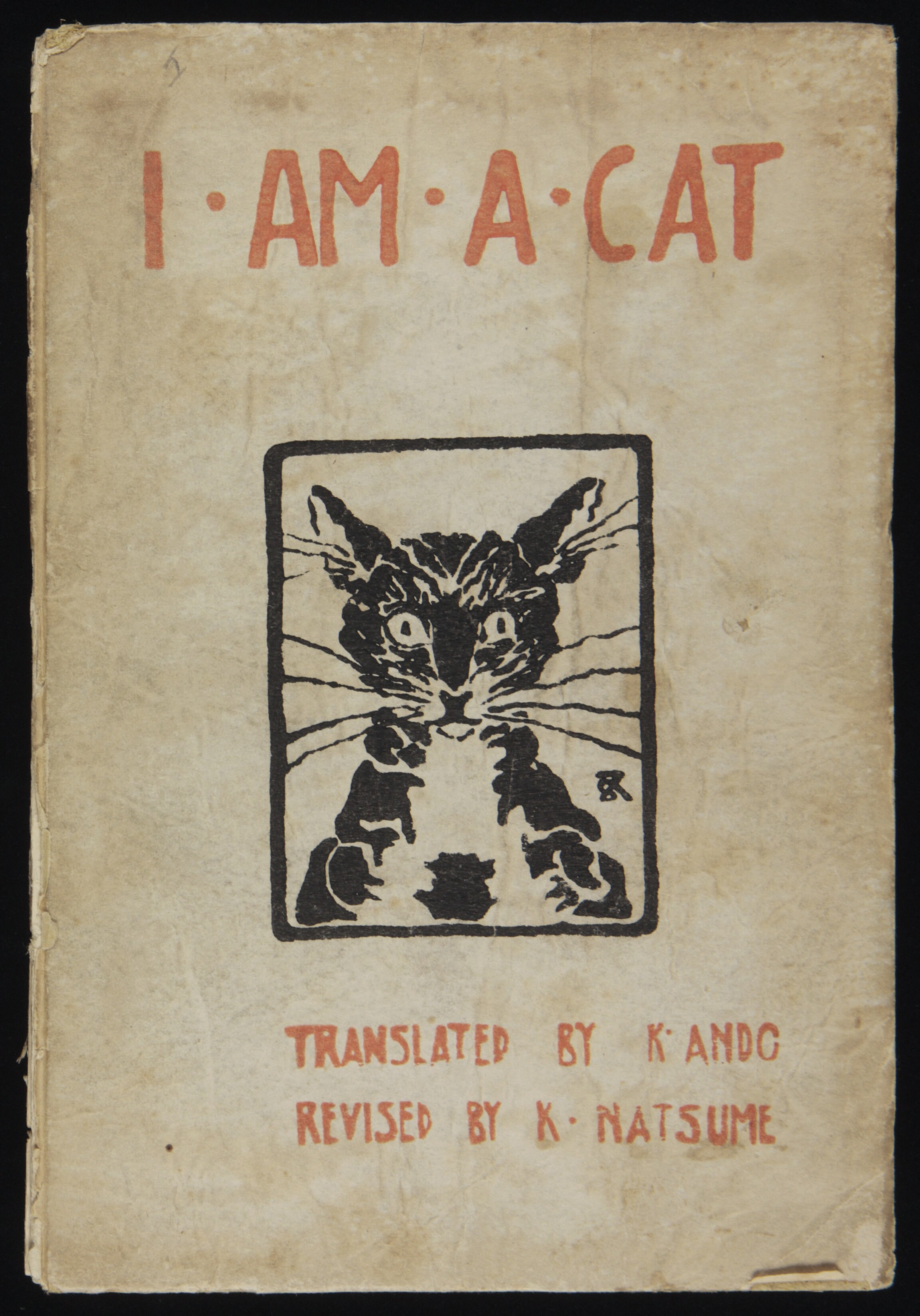 I am a cat / translated by K. Ando ; revised by K. Natsume.